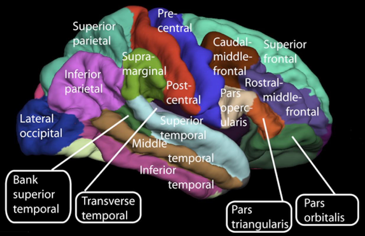 gyri - anatomical subregions of cerebral cortex.